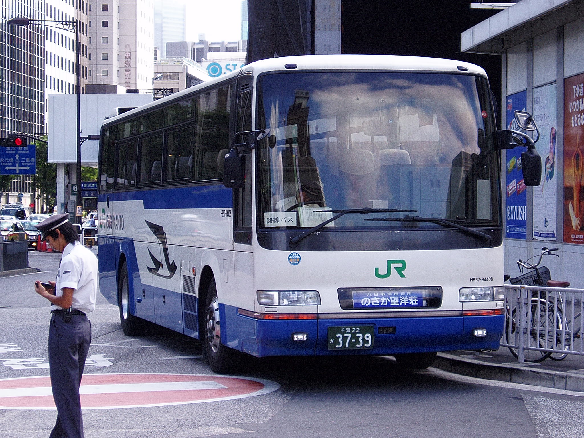 JR Bus Kanto（ジェイアールバス関東）H657-94408 Hino U-RU3FSAB 2006.09.10 At Tokyo Sta Photo by Cassiopeia_sweet.